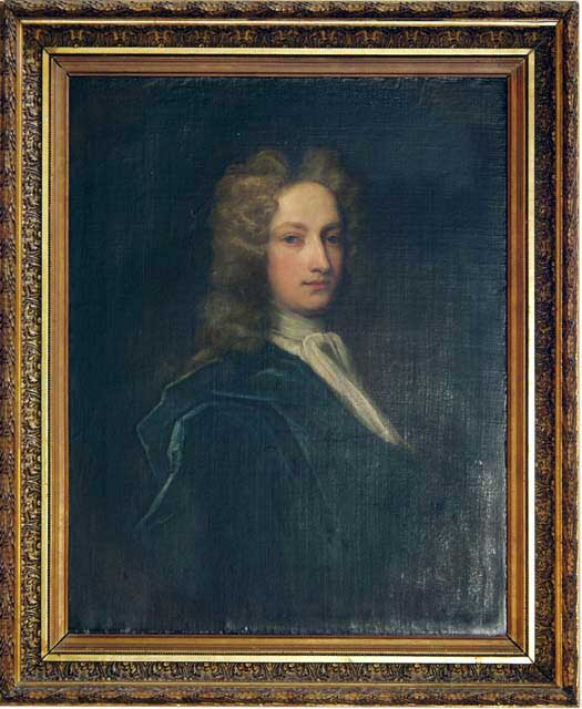 Scroop Egerton